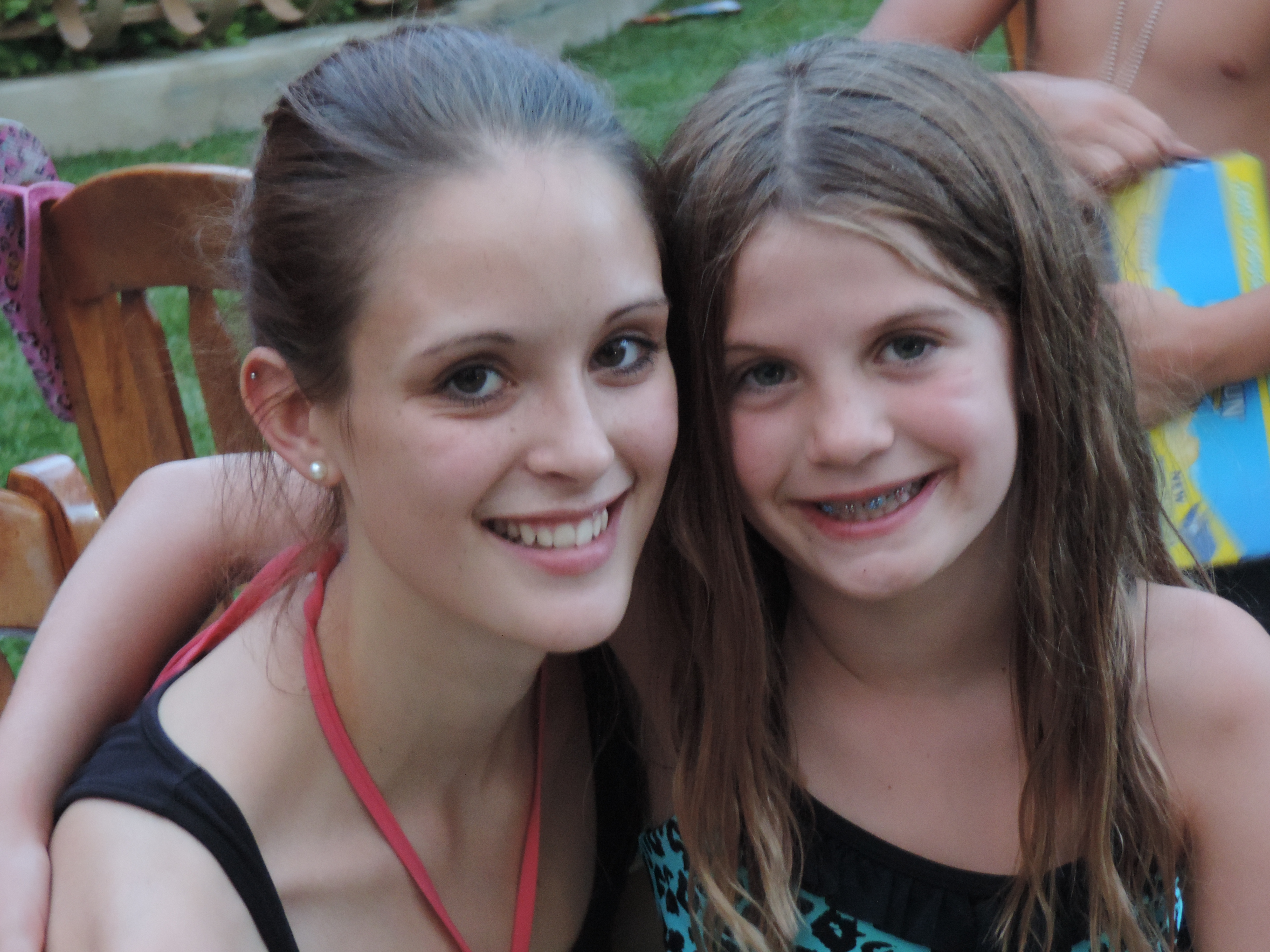 Eileen and Juliette on July 4th 2013